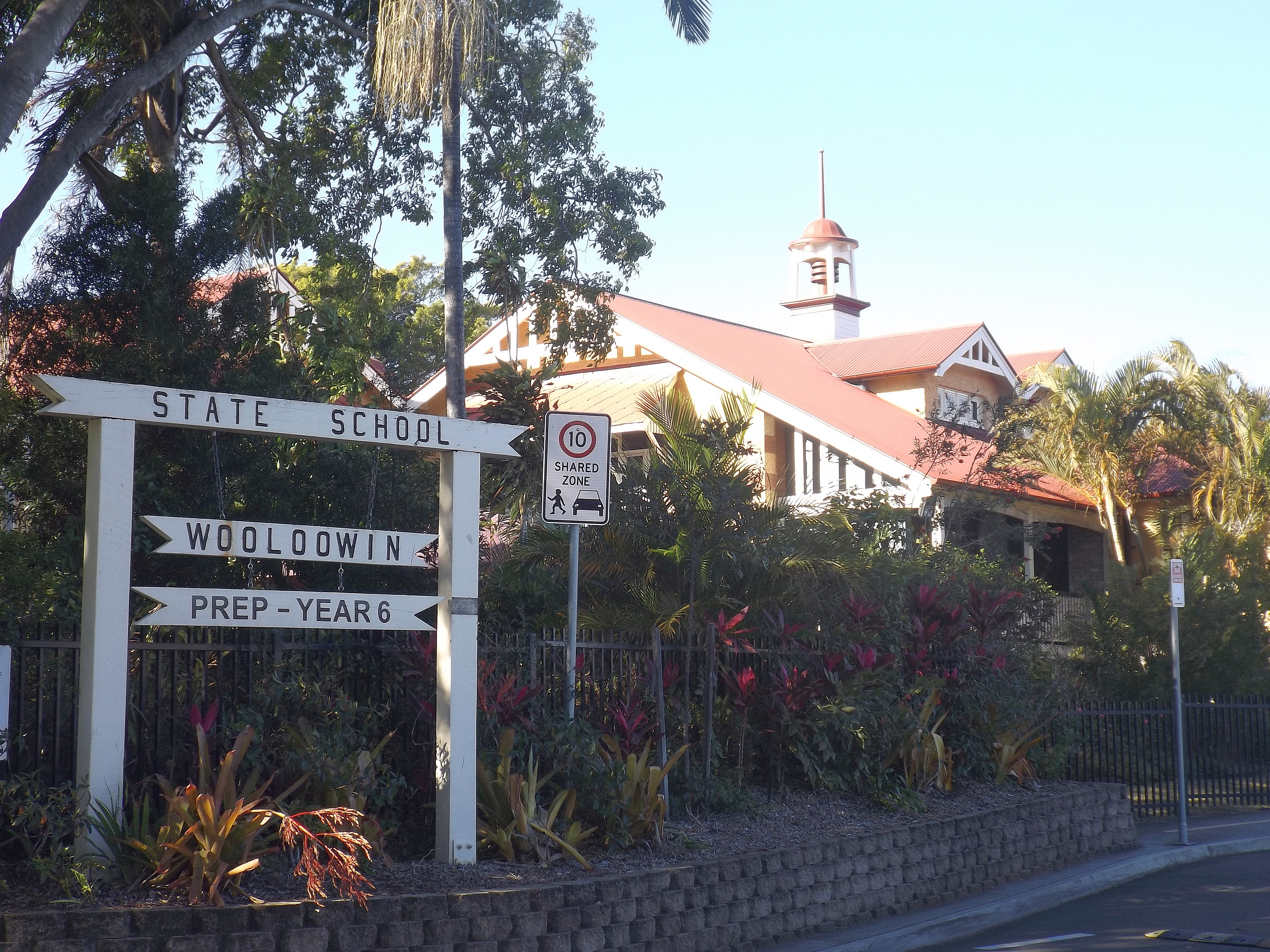 Photo of the front of Wooloowin State School at Wooloowin in Brisbane, Queensland, Australia.